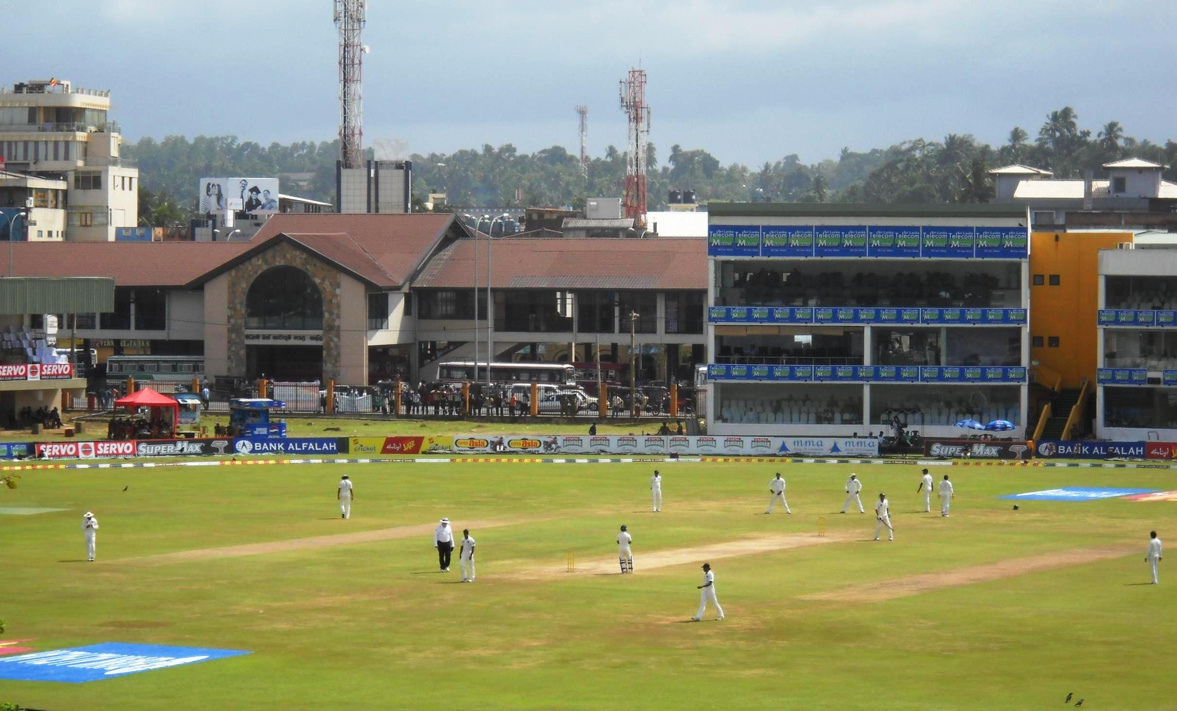 Sri Lanka playing against Pakistan in a test cricket match at Galle Cricket Ground, 25th june 2012.